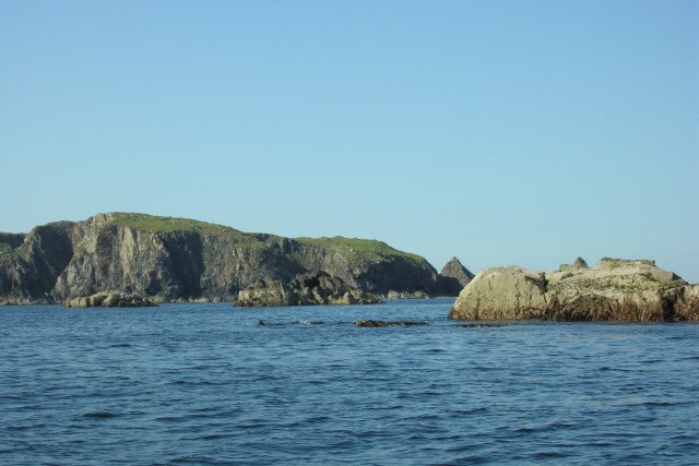 North-west skerries, Flodaigh, 4 km from Bostadh, Na h-Eileanan an Iar, Great Britain. The foreground rocks make up the North-west skerries of Flodaigh. The island in the far distance is Bearasaigh.